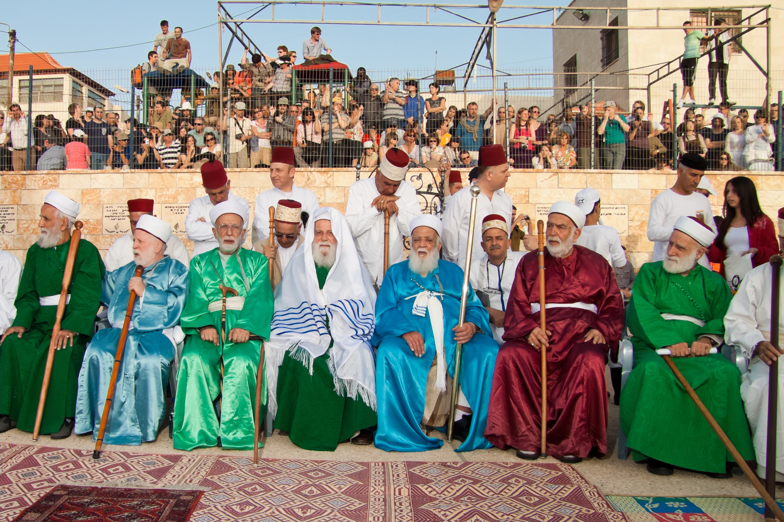 The whole documentary set can be seen here: [1] WARNING!!!! This set contains explicit bloody images which may offend the viewer's sensitivity. Your Discretion Is Advised. Samaritans celebrate Passover on Mt. Grizim. For the Samaritans Mount Grizim, not Jerusalem, is the one true sanctuary chosen by Israel's God. Their community counts about 700 people. The Passover sacrifice-is the parallel of the Jewish Seder Night. The Samaritans gather around the altar and listen to the high priest's Passover blessing. Given his signal, the nominated people simultaneously sacrifice the animals. Around 50 lambs are sacrificed in one minute. Every Samaritan then puts a drop of blood on his forehead in identification with the Israelites drawing blood on their doorframes so that the angel of death would Pass Over their houses and spare the lives of their firstborns. Info from: [2]